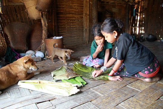 Mru-who are the hillside people of Bangladesh.Most of them live top of the hill where no civilization people gone.They live by their own culture & own language.They doesnot differ between man & animal.Theisr house is built by bamboo but three layers which really scientifically.But after that they like to live nudity. which was the culture of man long years ago.